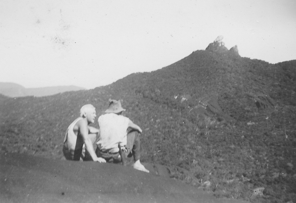 Wilfred Knight facing Walter Mason in hat. Photograph taken by Douglas Mason